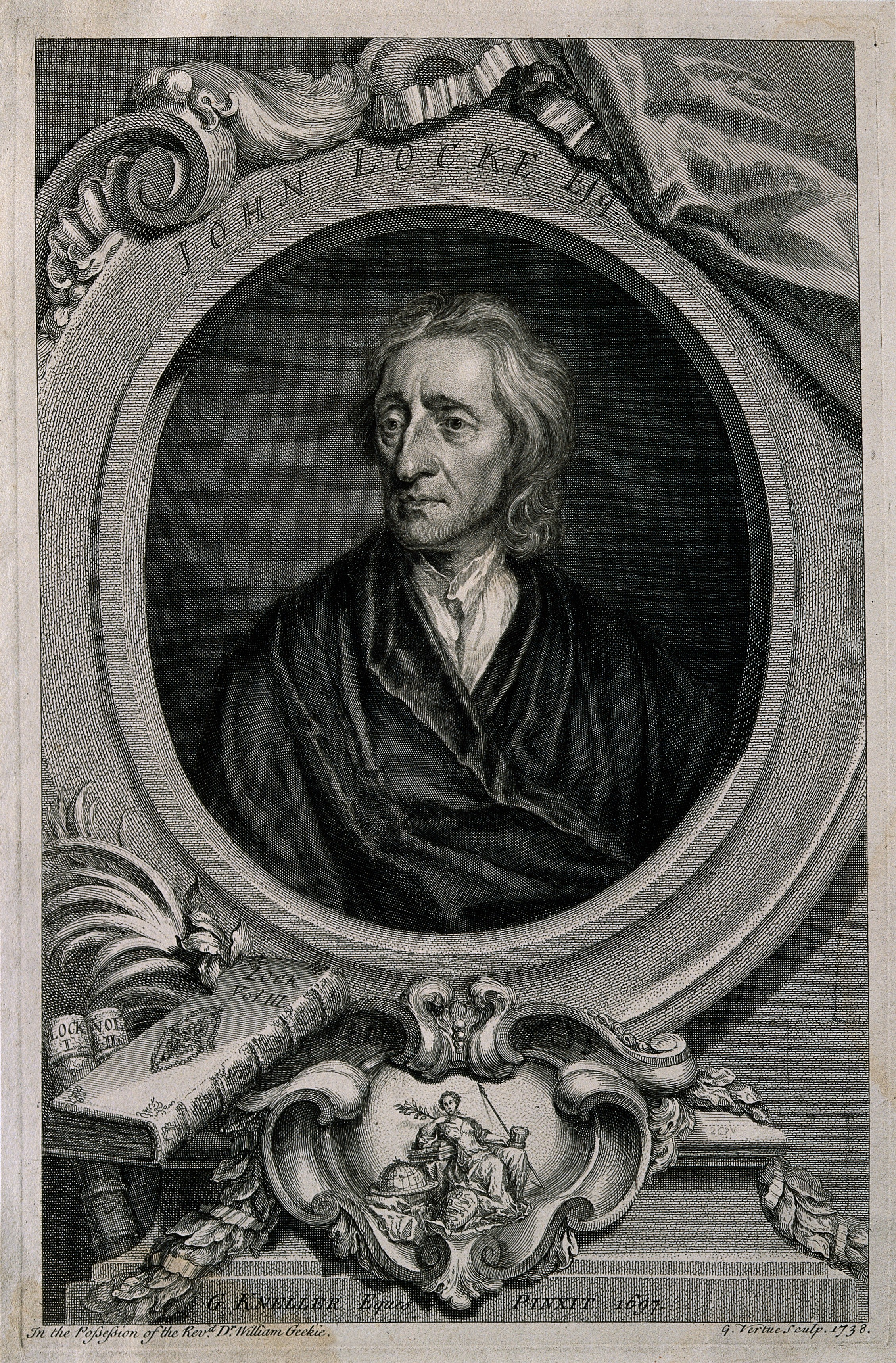 John Locke. Line engraving by G. Vertue, 1738, after Sir G. Kneller, 1697. Iconographic Collections Keywords: portrait prints; engravings; John Locke